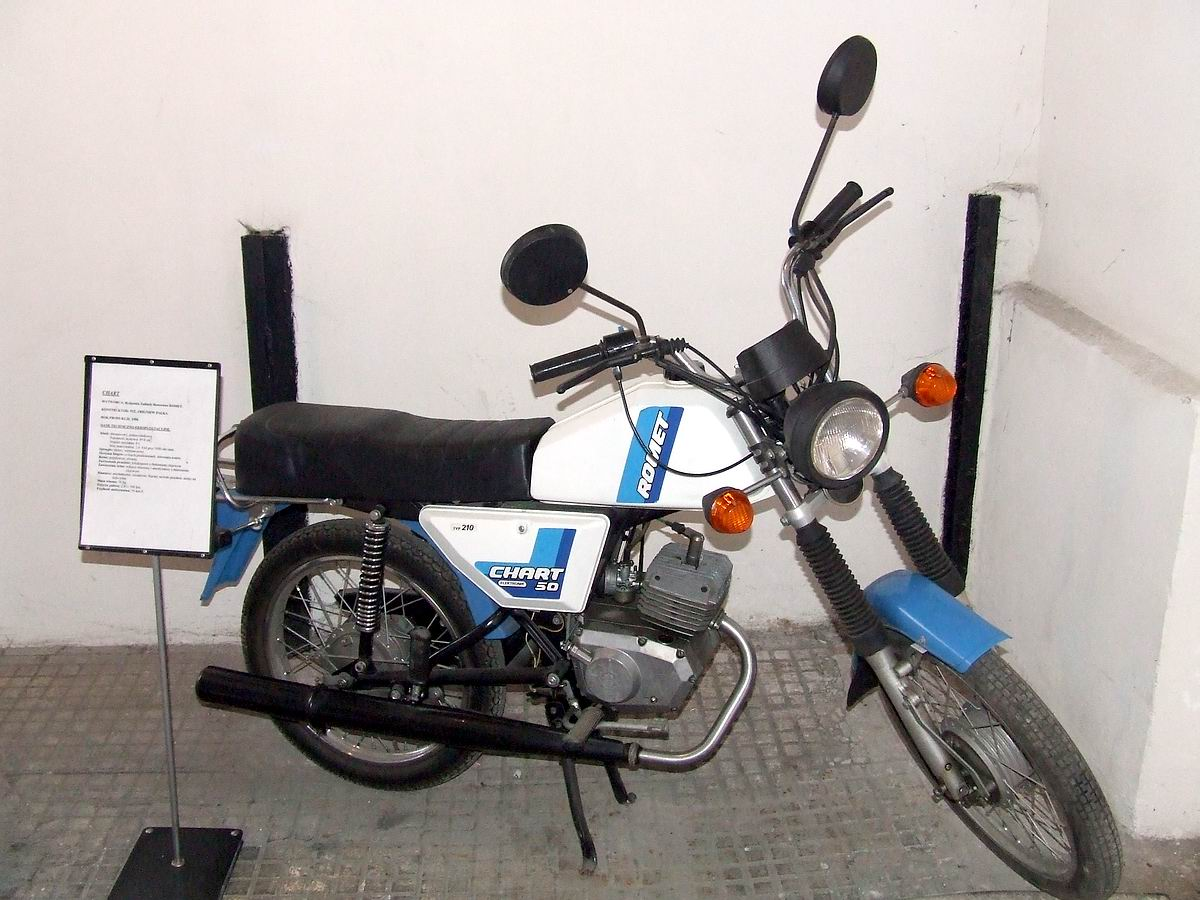 Motorower Romet Chart, 1988.